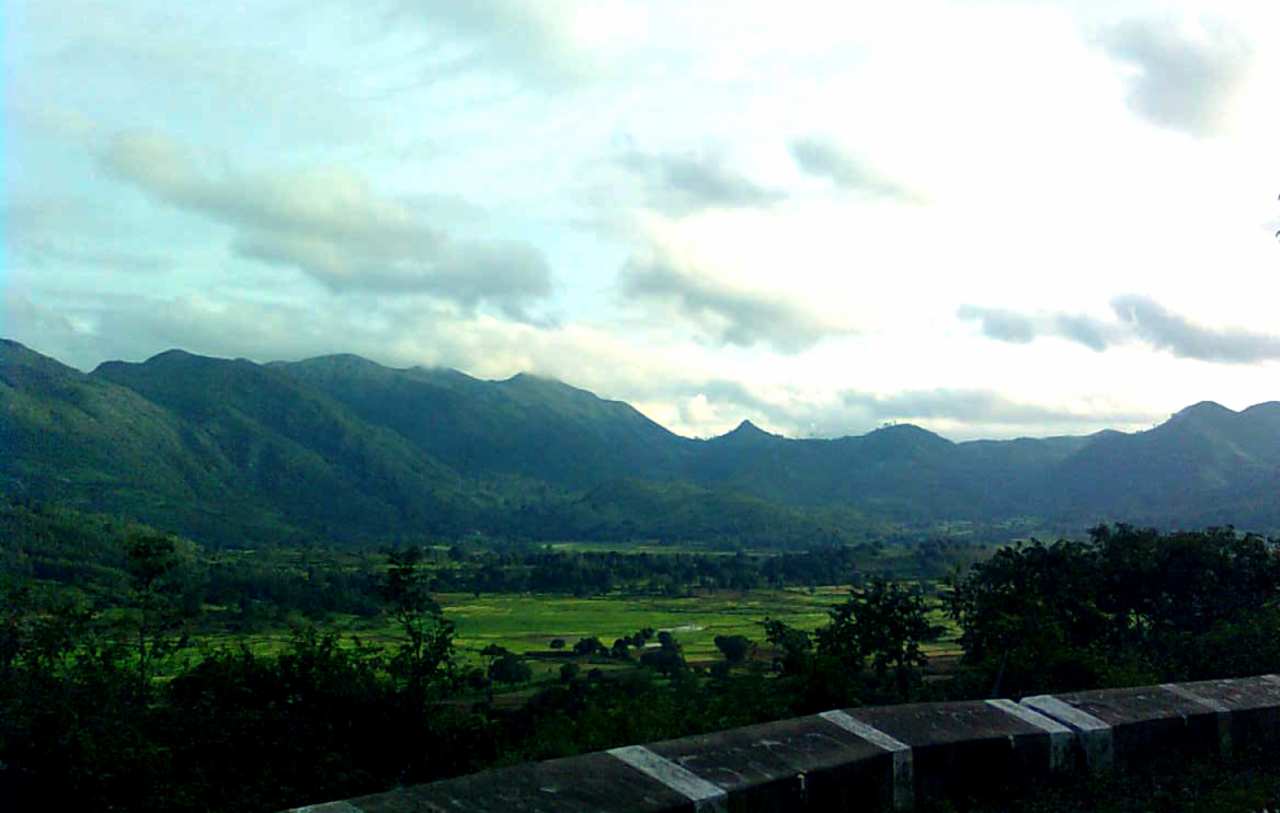 View of Araku valley from Ghat road in Visakhapatnam district